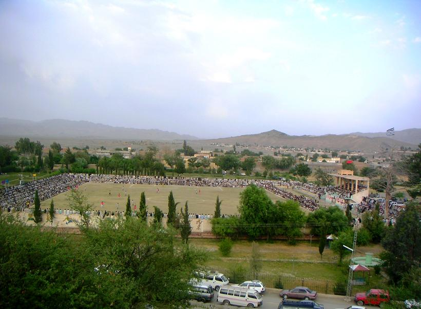 This is Football stadium in Zhob